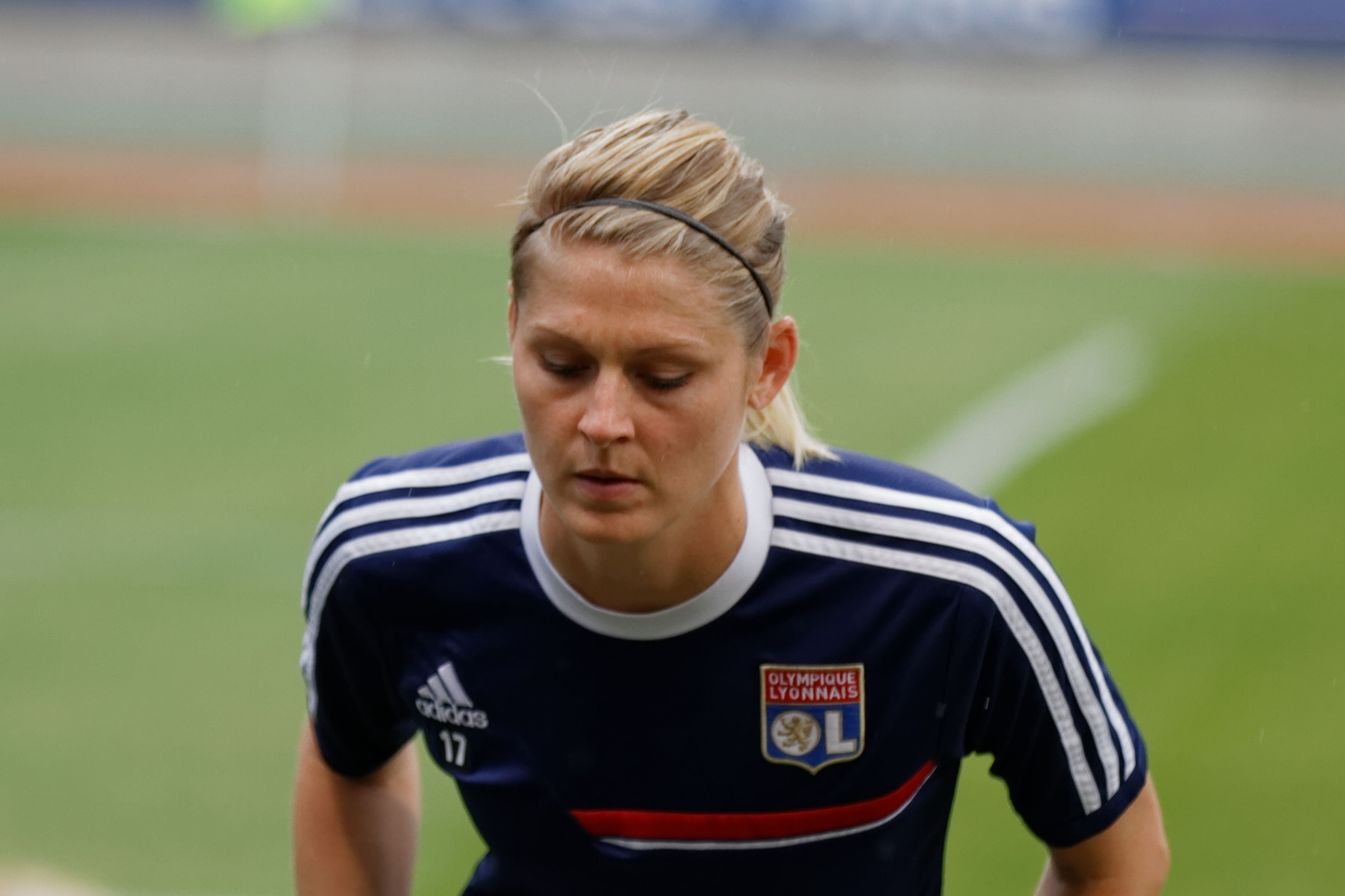 PSG-Lyon, September 29th, 2013.